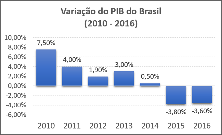 Brazillian GDP variation (growth) from 2010 and 2016